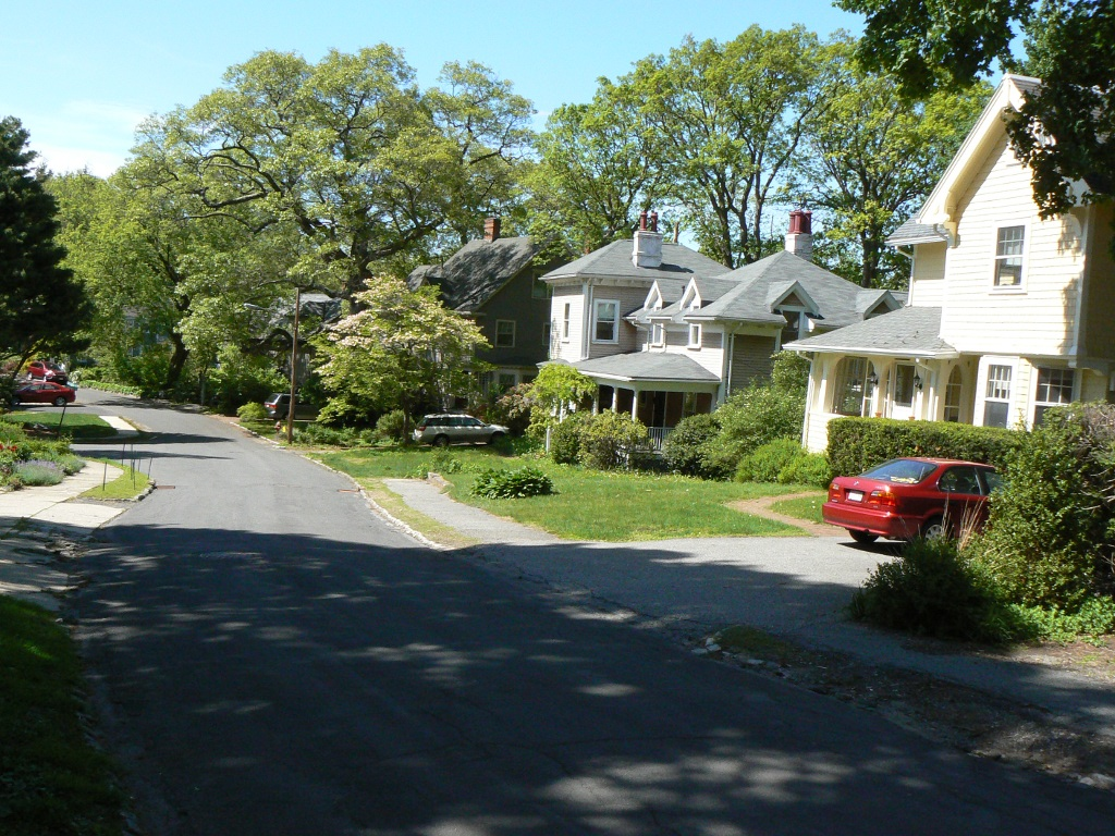 A photograph of Grassmere Street in the Firth-Glengarry Historic District of Winchester, Massachusetts.